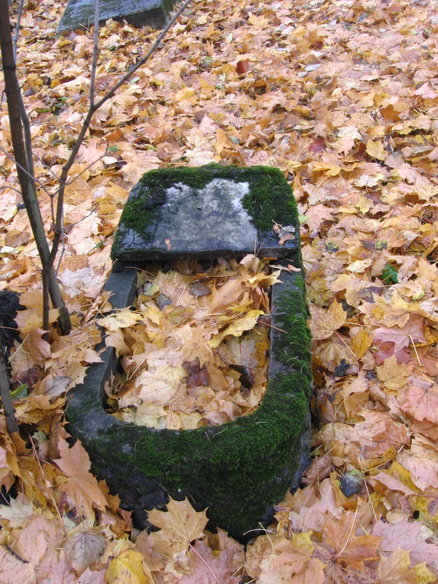 Grave of Alexander Ivanchin-Pisarev